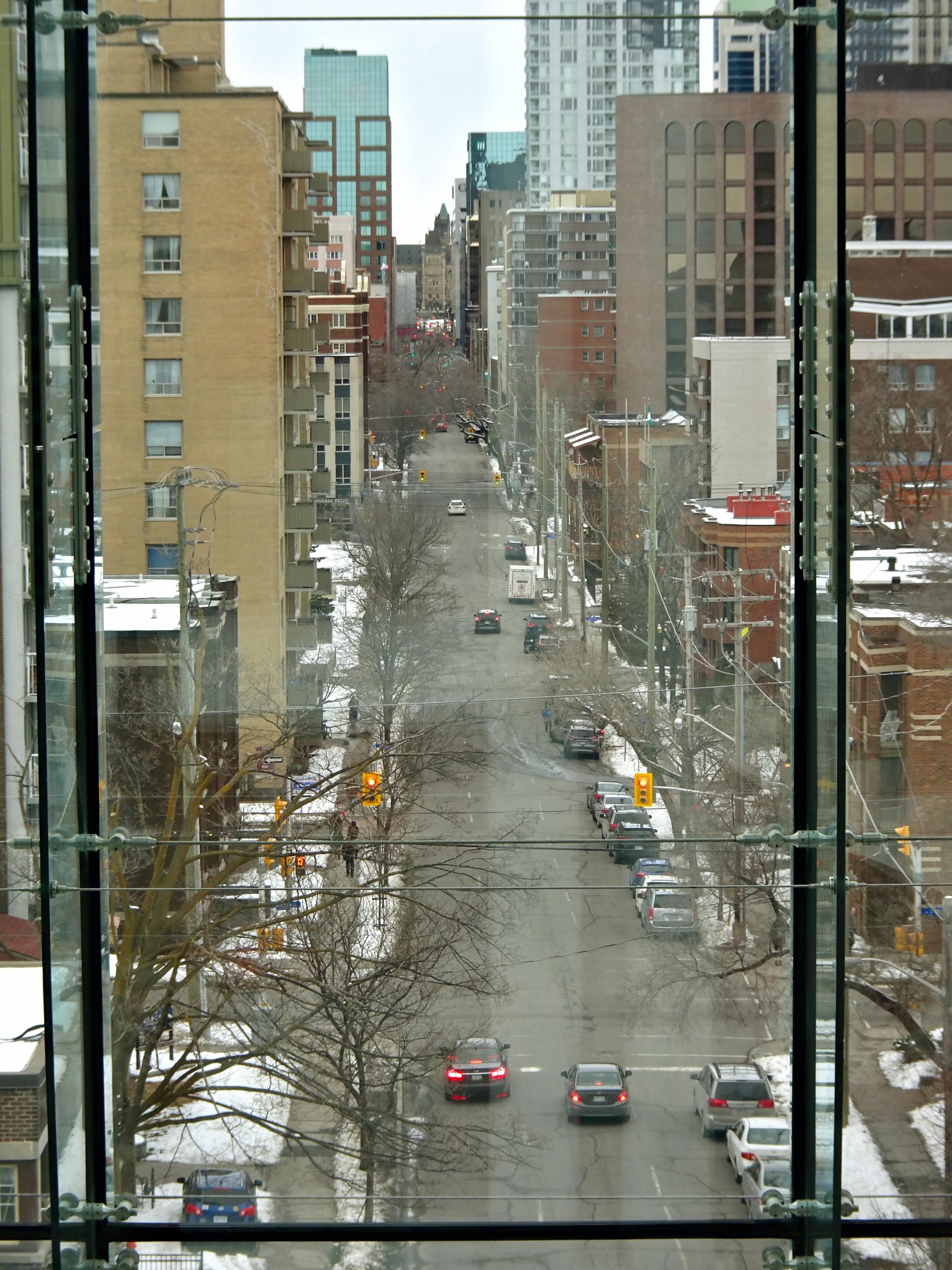 Metcalfe Street (taken from the Museum of Nature), Ottawa, Ontario, Canada